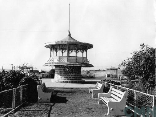 the place is the very old in chile